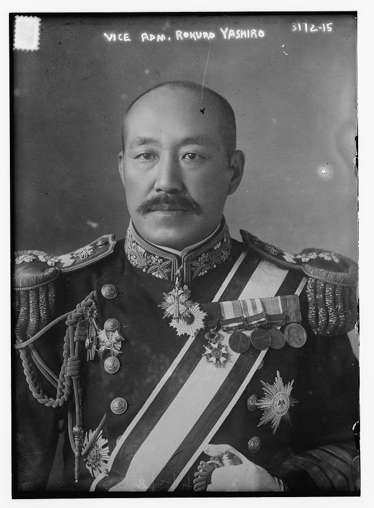 Baron Yashiro Rokurō circa 1915